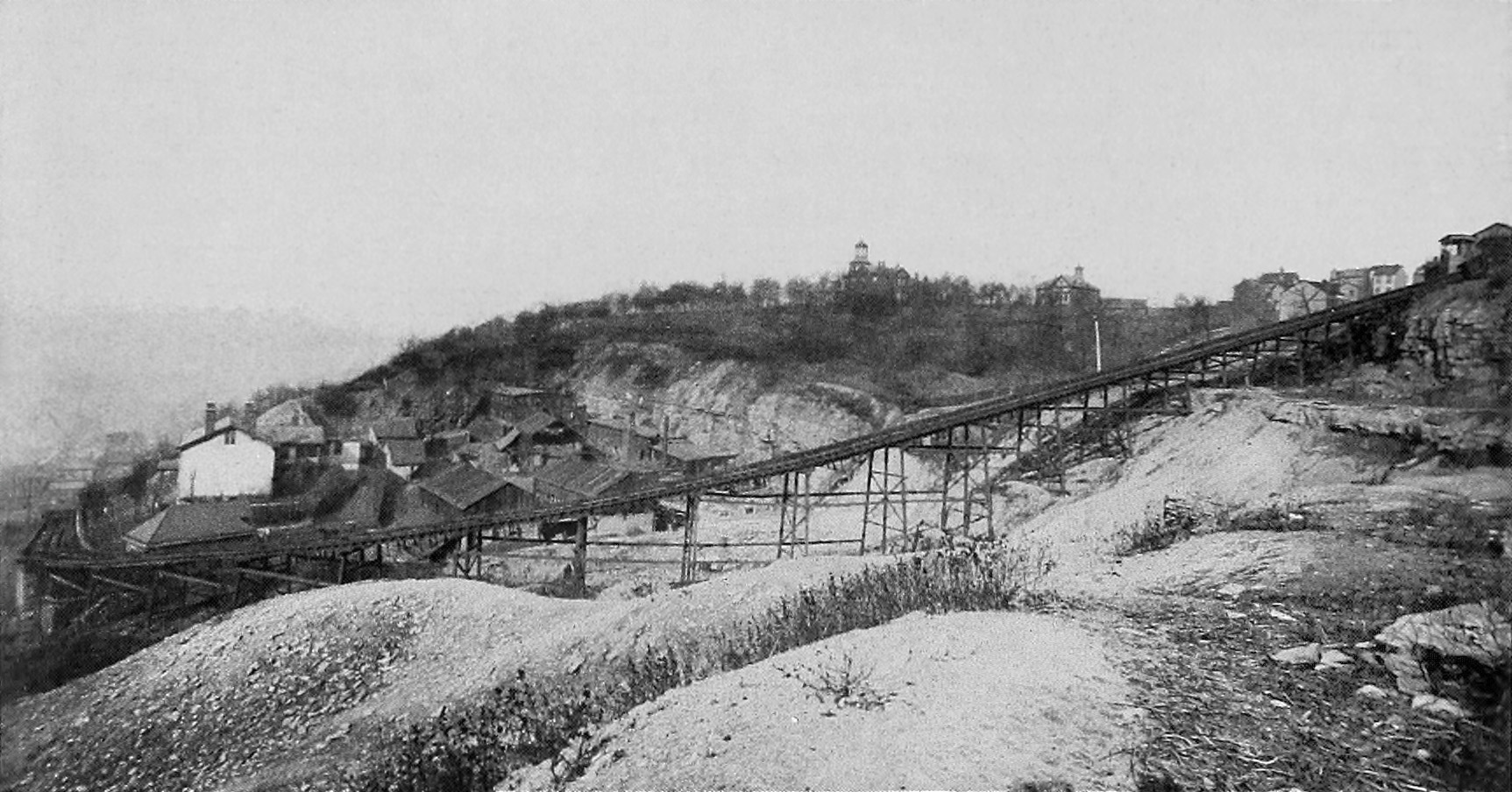 Nunnery Hill Incline, Pittsburgh, Pennsylvania, United States